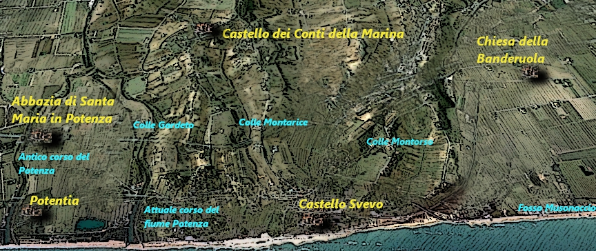 Places of ancient Porto Recanati